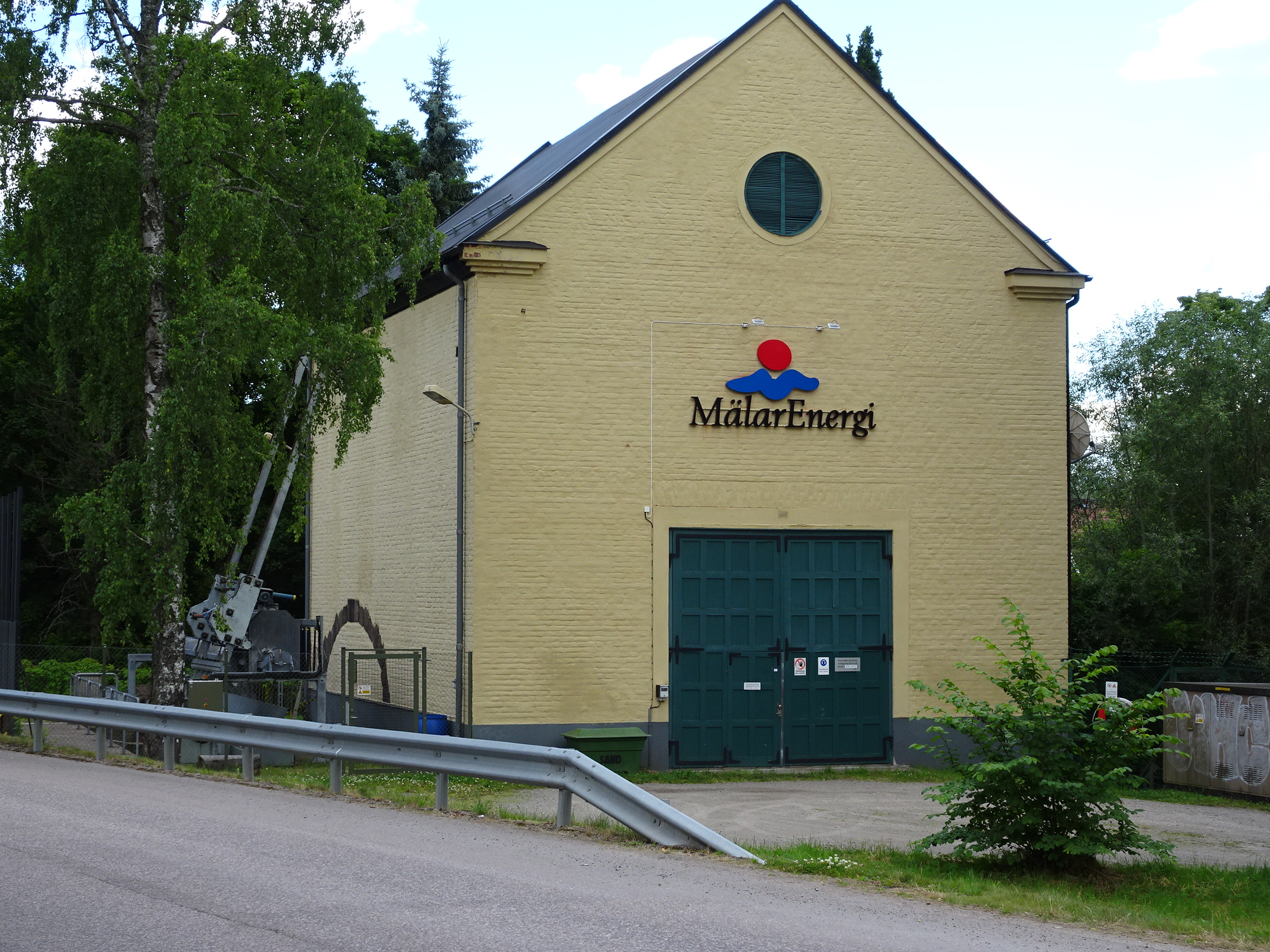 Surahammar hydroelectric power station in the river Kolbäcksån, in Surahammar, Sweden.